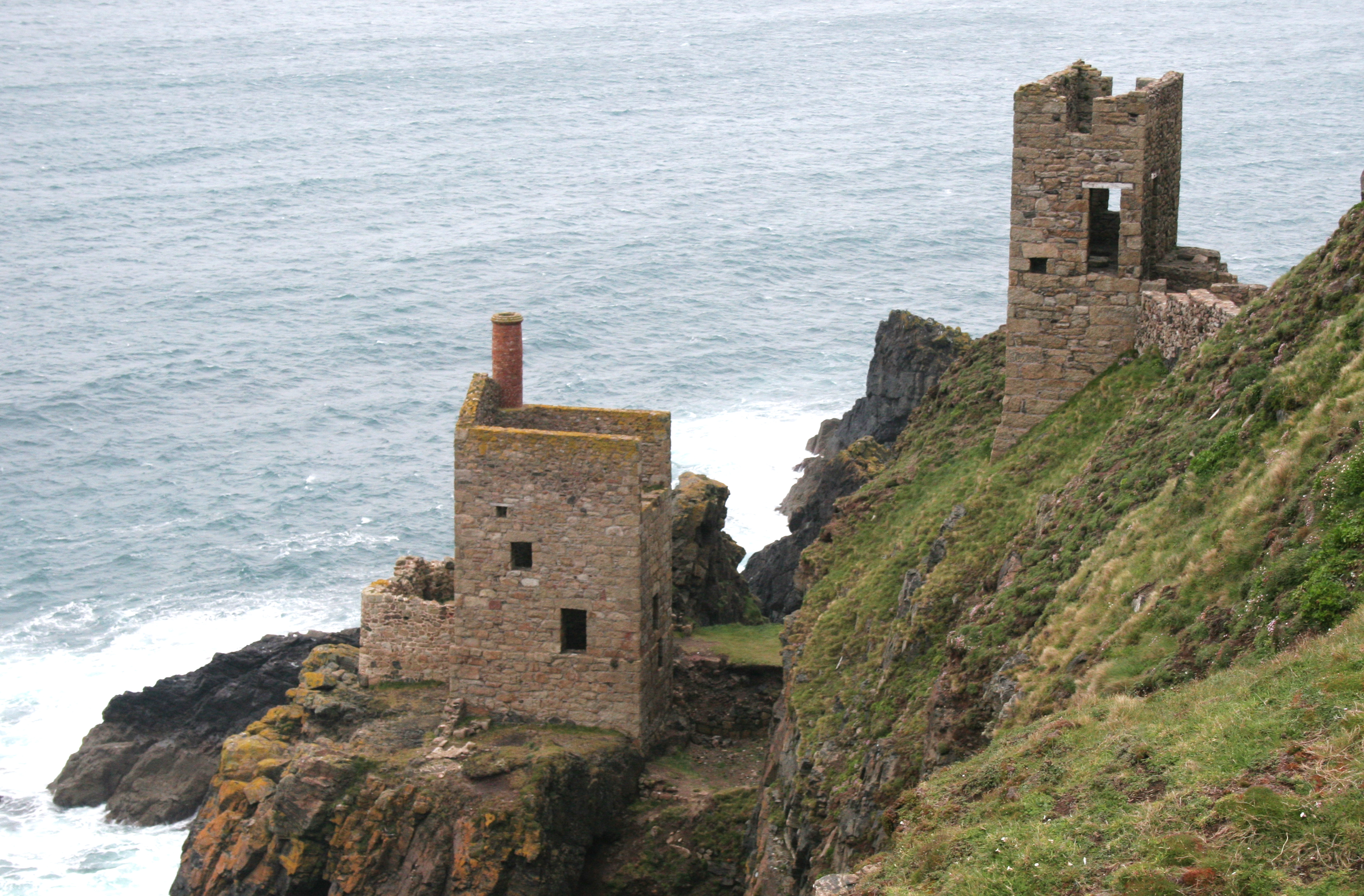 Crowns engine houses, perched on the cliff at Botallack.